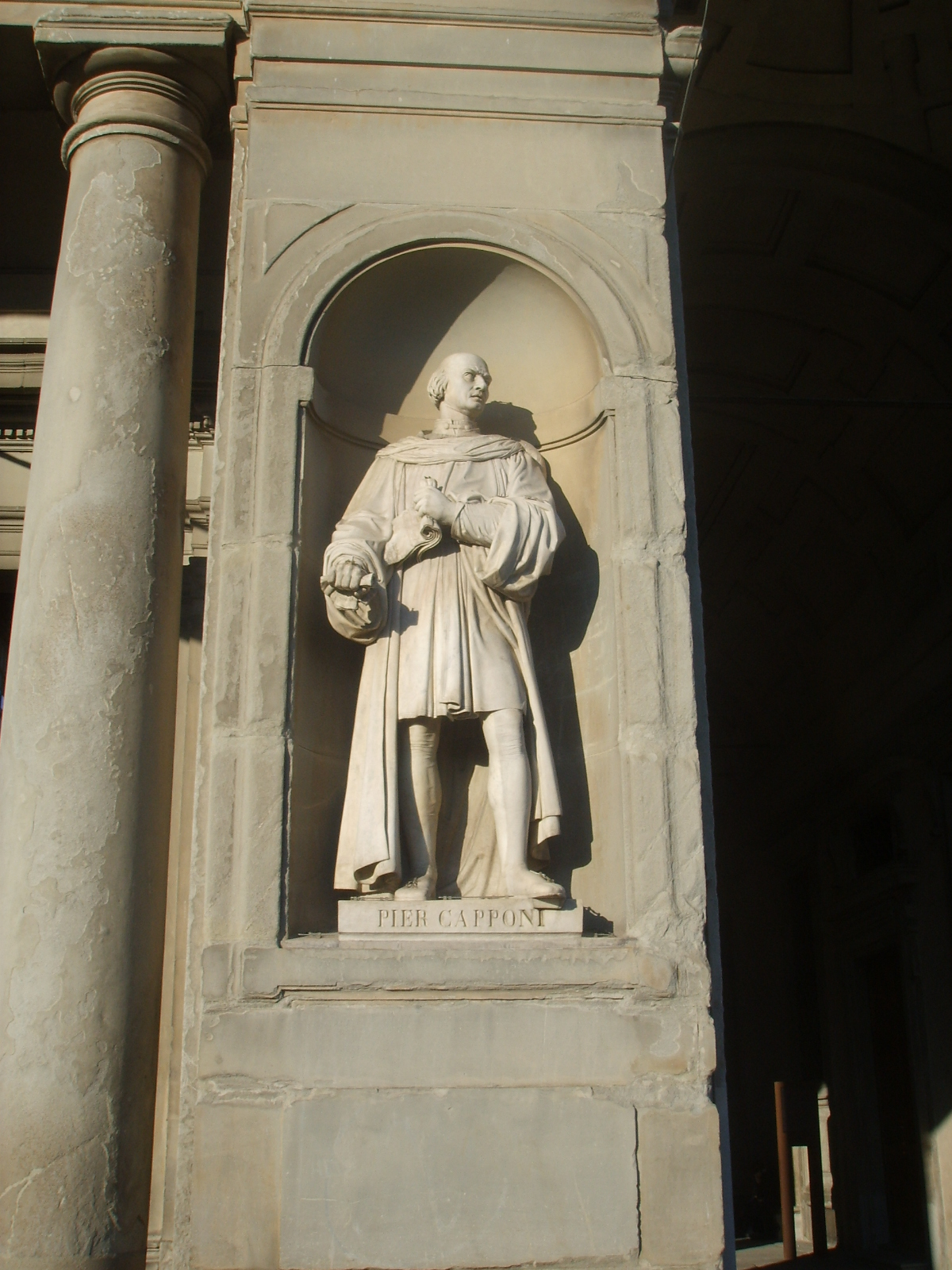 Statues in the Uffizi outside Gallery Famous florentine. See title description